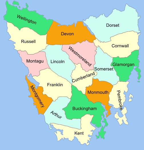 map of the 18 counties of Tasmania, used for cadastral purposes. See 1871 map